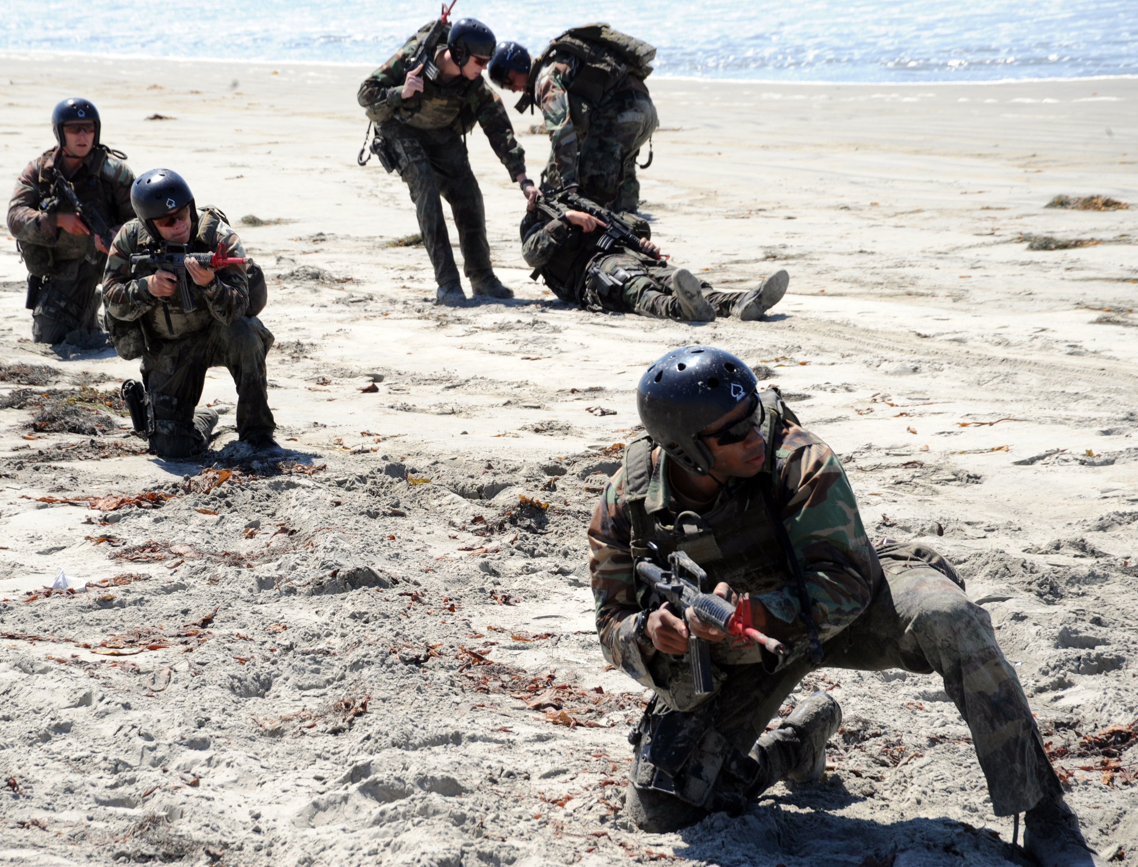 SAN DIEGO (Sept. 10, 2008) Crewman Qualification Training (CQT) students provide cover for their teammates in a medical evacuation training scenario at the Naval Special Warfare Center in Coronado, Calif. CQT is a 14-week advanced training course teaching basic weapons, seamanship, first aid and small unit tactics to Special Warfare Combatant-craft Crewman (SWCC) trainees. SWCCs operate and maintain the Navy's inventory of state-of-the-art, high-speed boats used to support SEALs in special operations missions worldwide. (U.S. Navy photo by Mass Communication Specialist 2nd Class Christopher Menzie/Released)